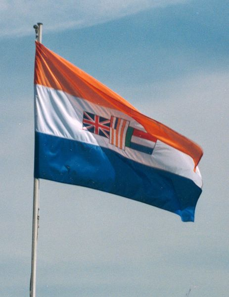 Flag of South Africa (1928-1994) It contains a common mistake - the Union Jack should actually be displayed with the hoist on the right (like here).